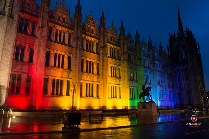 Aberdeen City Council offices are lit in rainbow colours in support of IDAHOT 2016